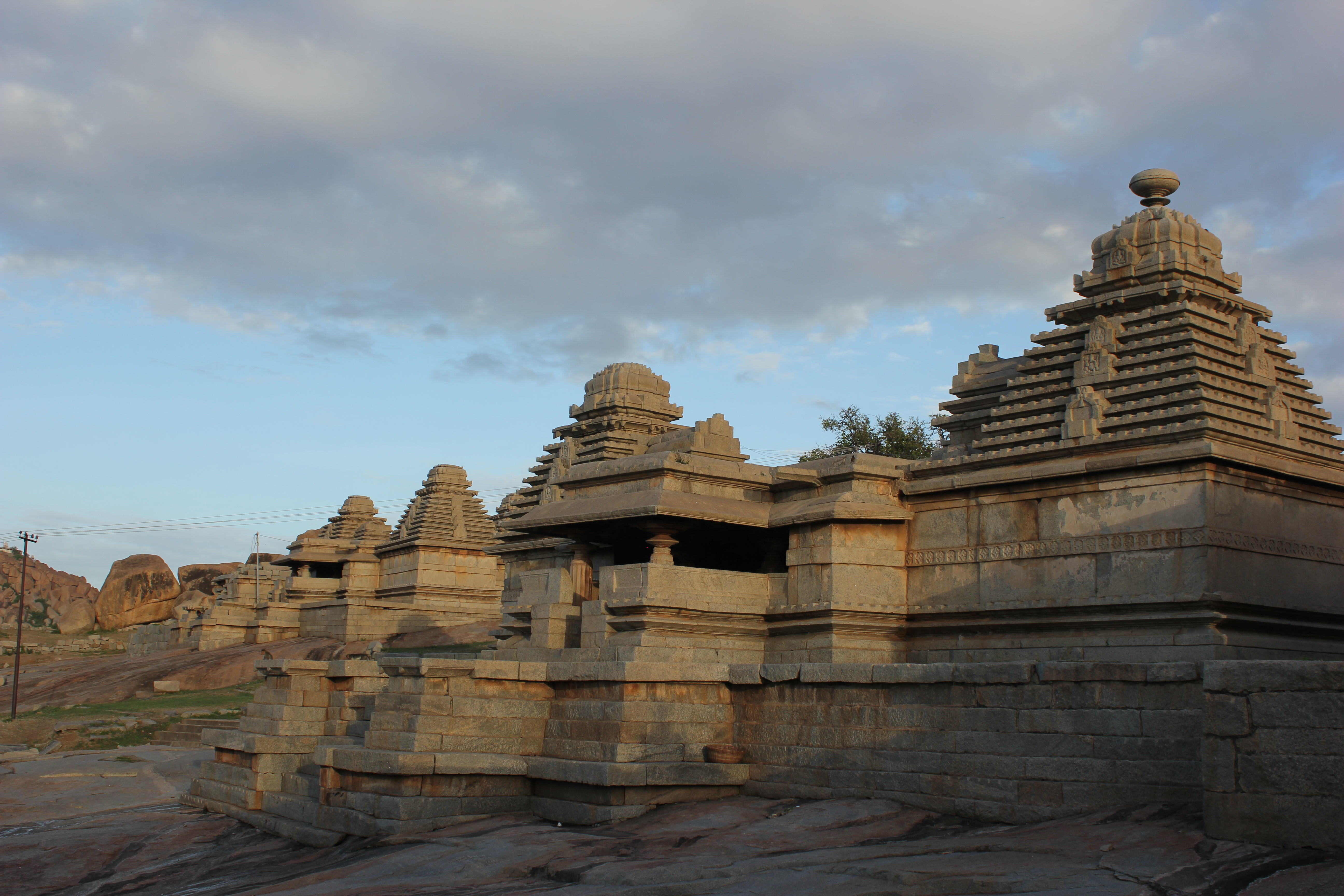 This photograph was taken by me on the Hemakuta hill temple complex at Hampi, a UNESCO world heritage site in the Bellary district of Karnataka state, India . The temples date to the rule of the early 14th century Kampili Kingdom and Vijayanagara empire periods